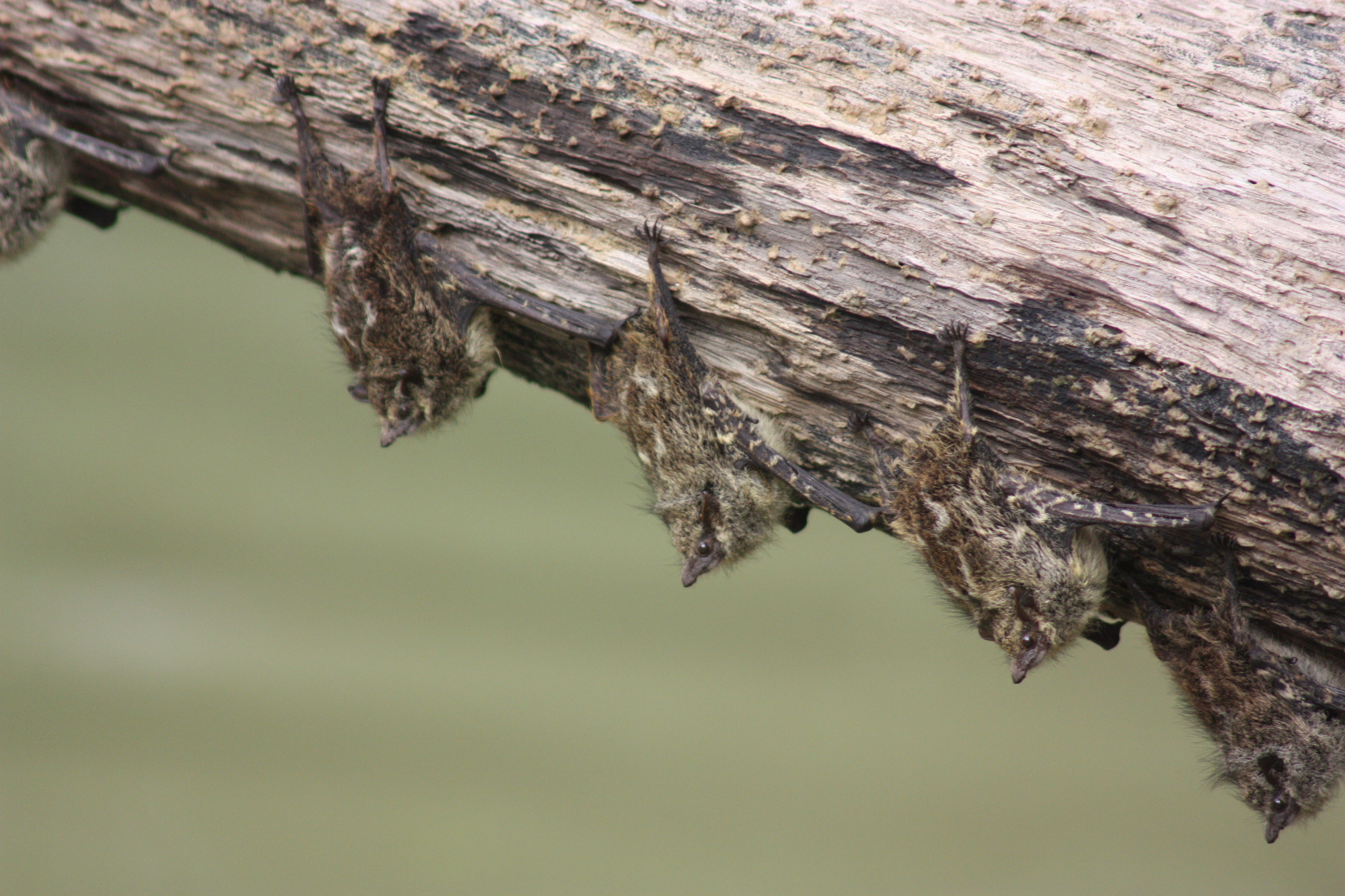 Long-nosed proboscis bats (Rhynchonycteris naso) on Rio Frio, Costa Rica